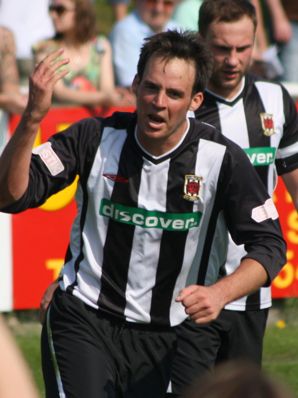 English footballer Matt Jansen playing for Chorley Football Club